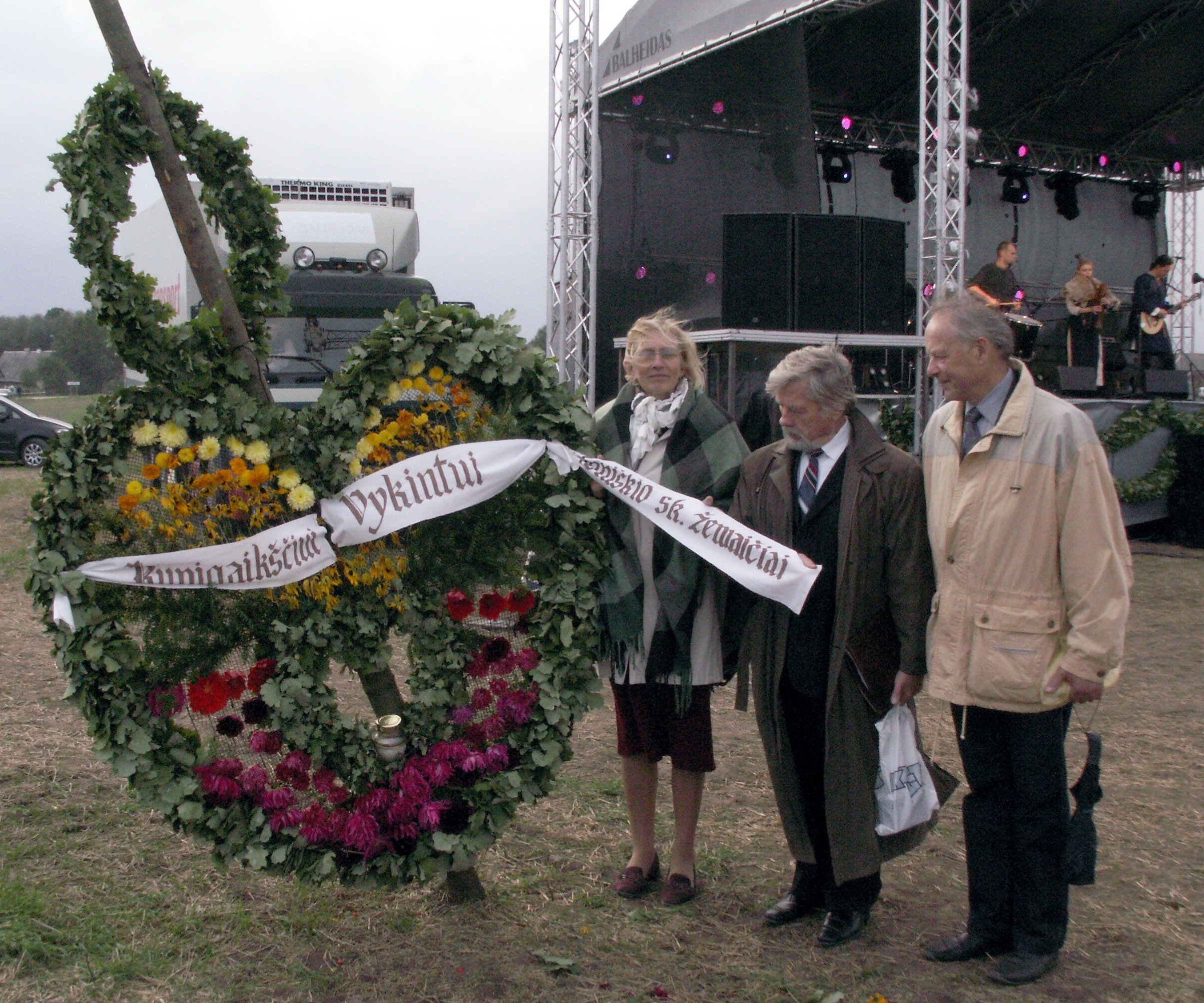 For memory of Battle of Saule and king Vykintas, Jauniūnai, Joniškis district, Lithuania